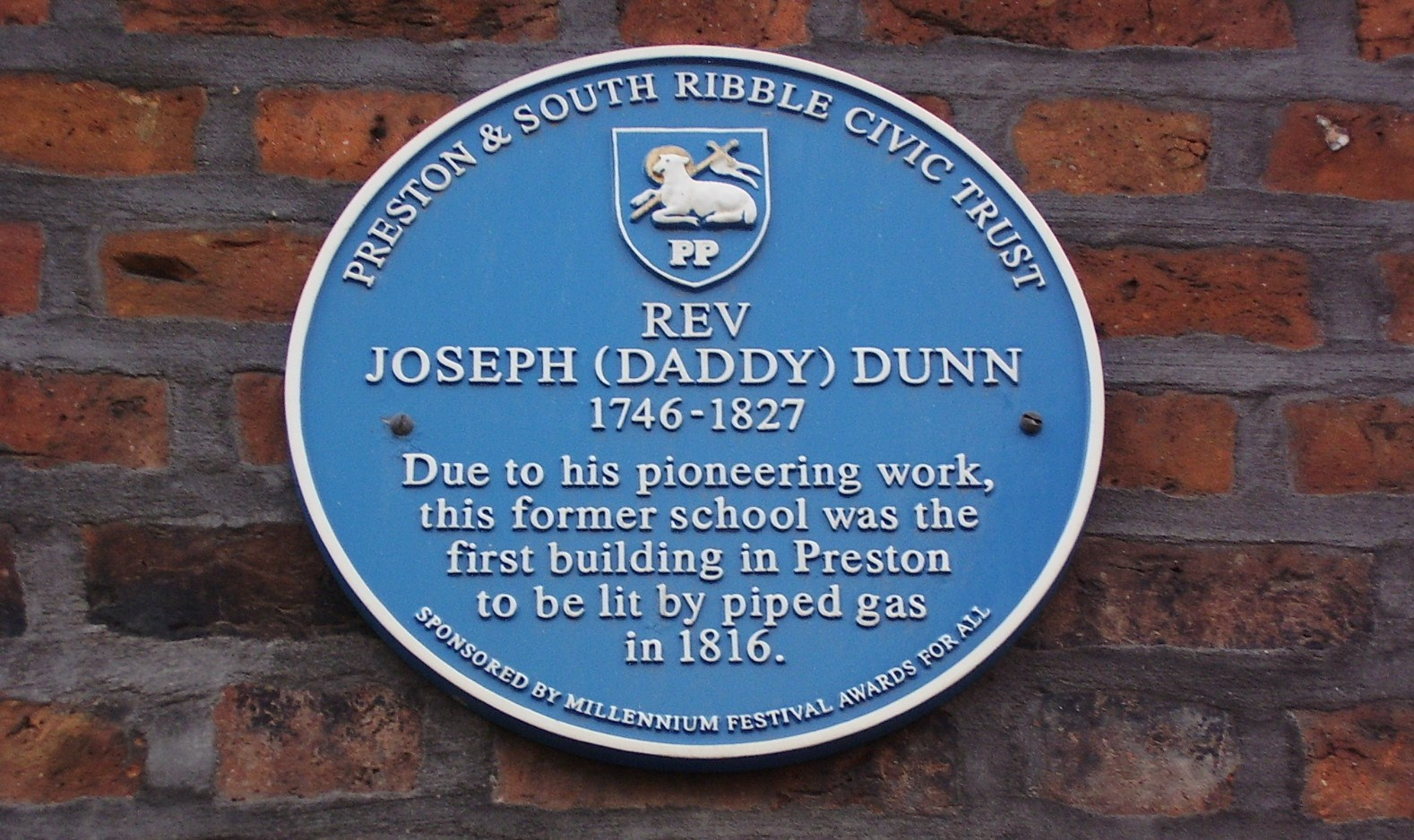 Plaque on building in Fox Street commemorating Rev Joseph (Daddy) Dunn and his work in bringing gas-lighting to Preston, the first provincial town in England to have it, and making the building itself the first to be gas-lit in the town.